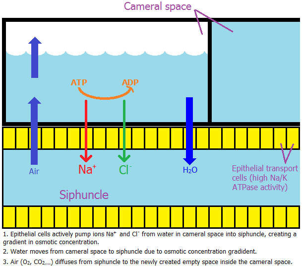 Simplified structure and mechanism of Siphuncle and Cephalopods